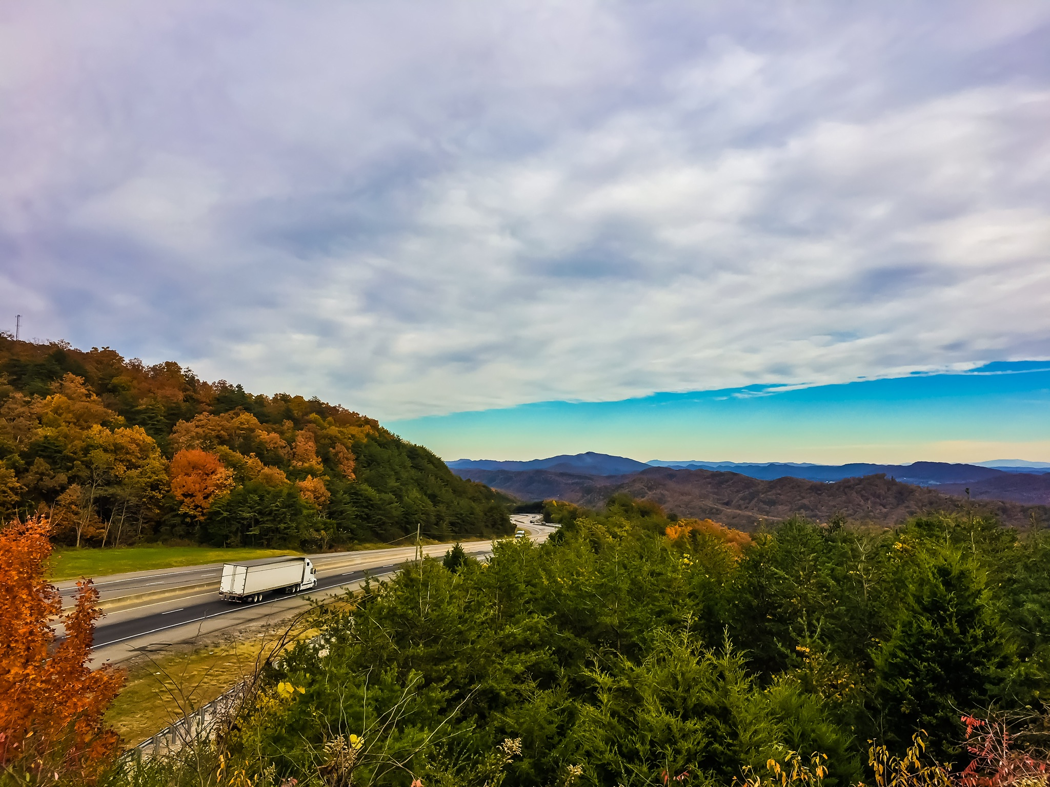 Tennessee State Route 32/U.S. Route 25E descending the southern slope of the Clinch Mountain Range in Grainger County, Tennessee, United States.